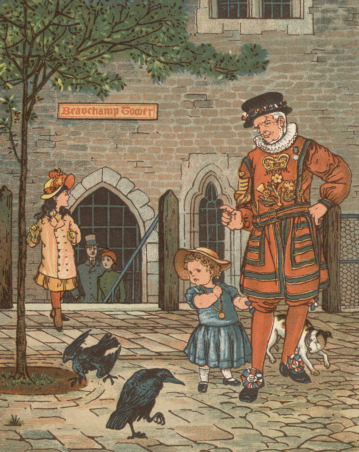 Page 9 of London Town (1883) showing ravens at the Tower of London.